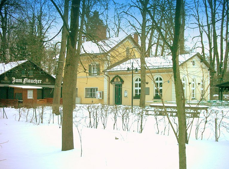 Winter impression of Flaucher area at river Isar in the southern part of München: Beergarden Zum Flaucher.